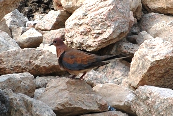 Laughing Dove (Streptopelia senegalensis) Abu Simbel, Egypt